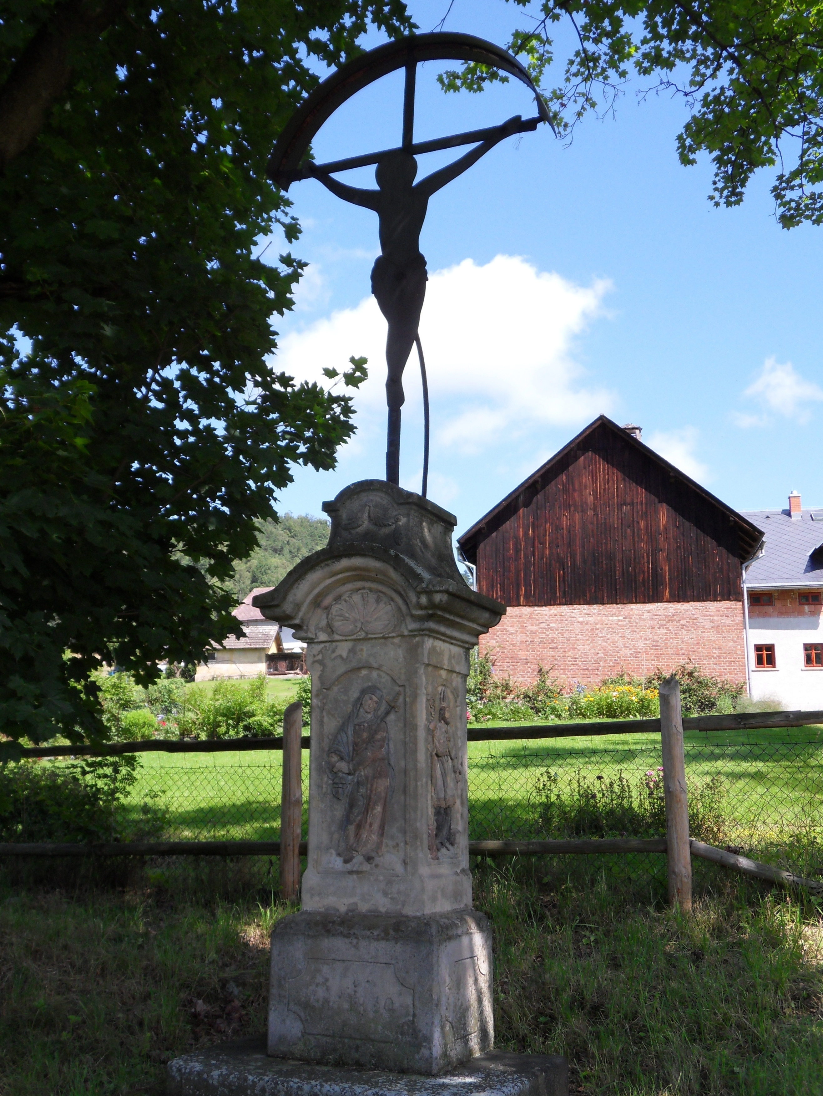 Crucifix in the village Zábrdí near Osečná, Czech Republic.